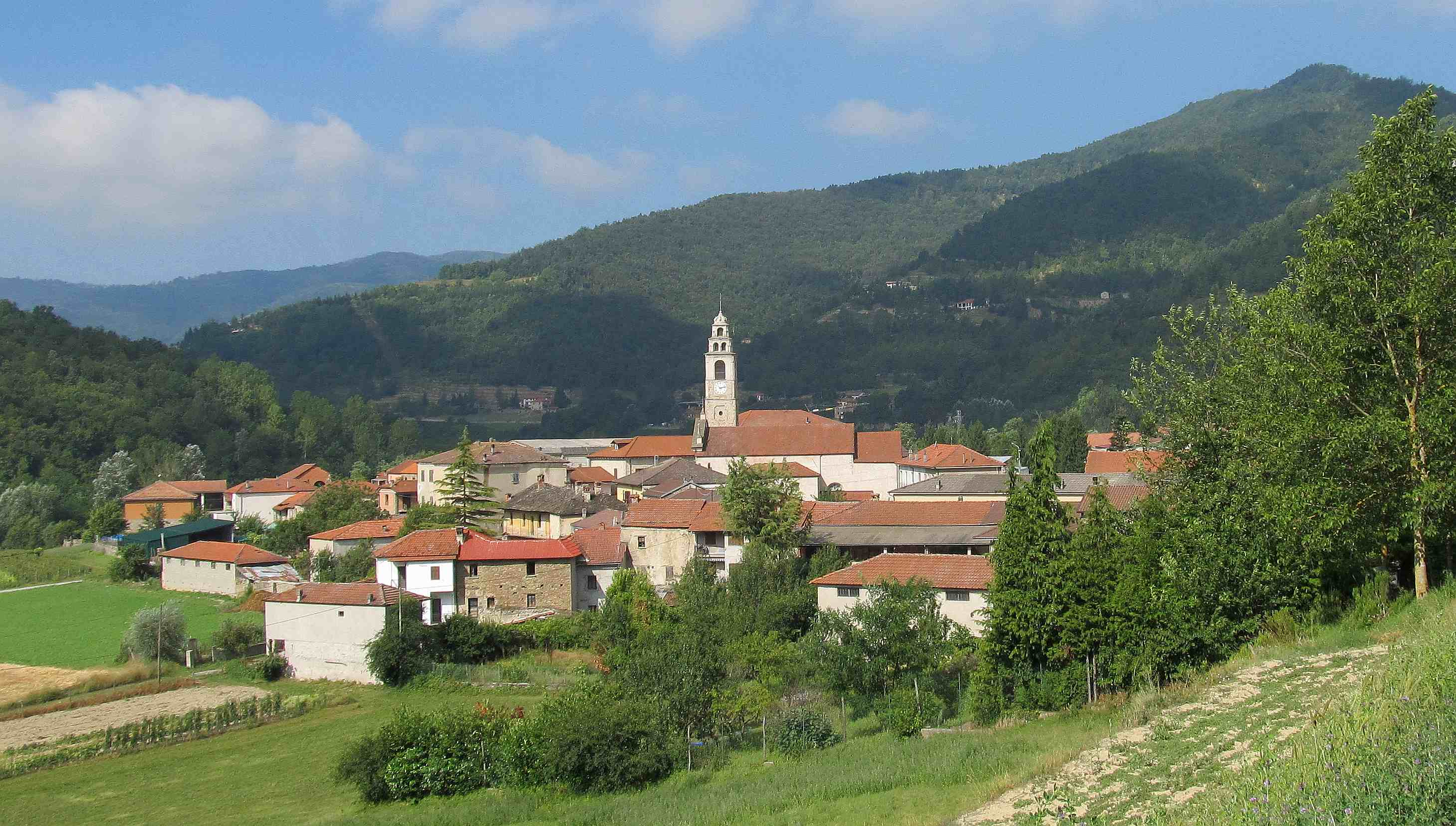 Gorzegno (CN, Italy): panorama